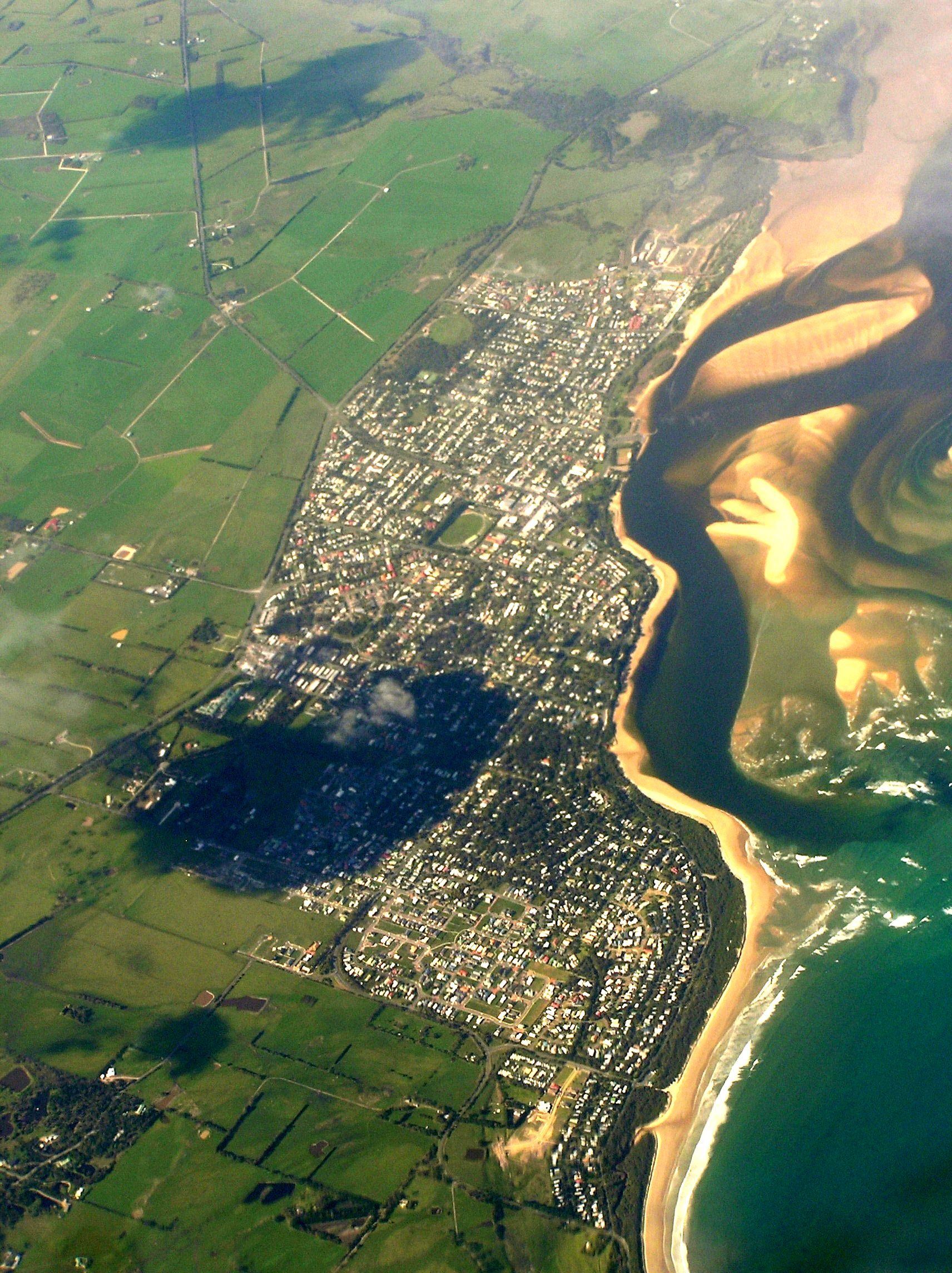 Aerial photo of Inverloch Victoria Australia from south west